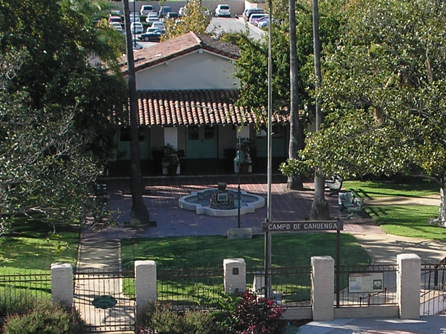 CAMPO DE CAHUENGA, 3919 Lankershim Blvd., North Hollywood, CA 91604